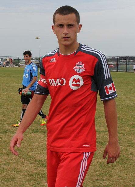 A photo of TFC Academy captain Nikola Paunic after a game at the new TFC Academy ground at Downsview Park. Goalkeeper Angelo Cavalluzzo can be seen in the background.This photo was used here